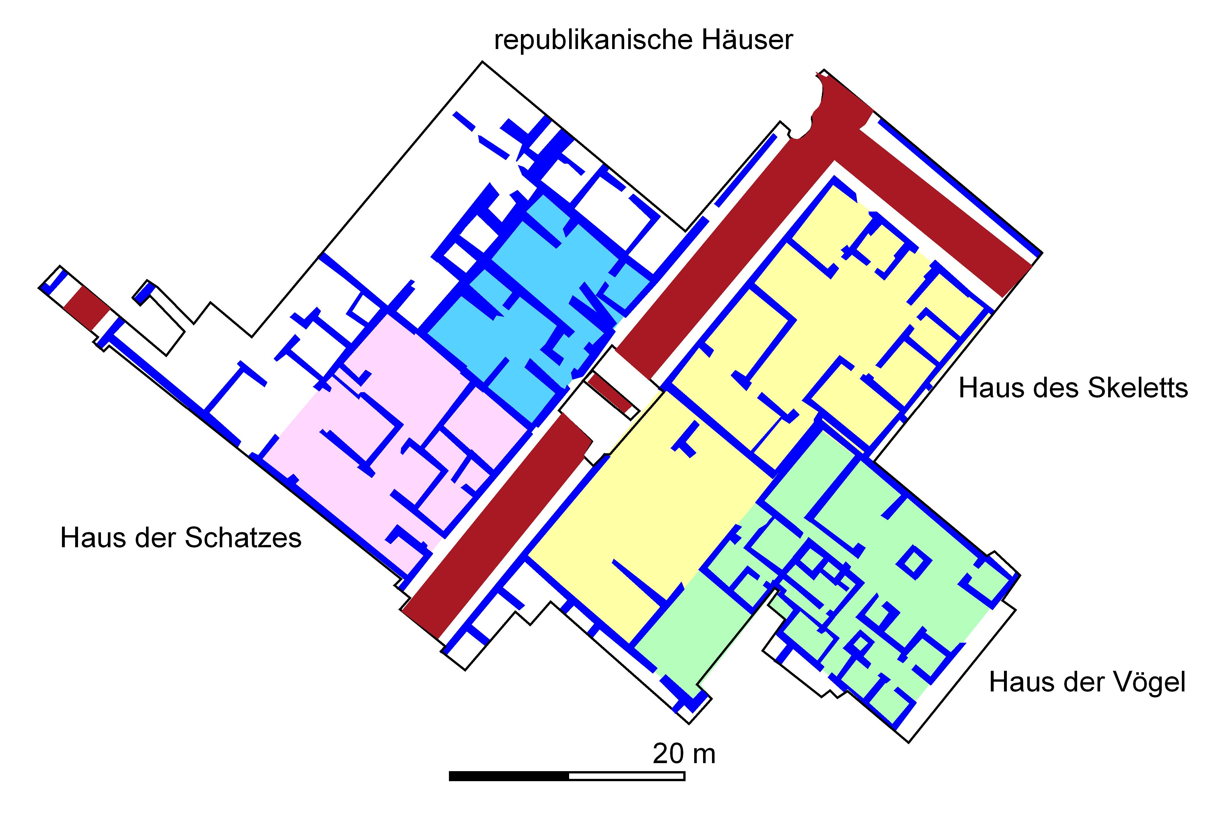 Excavation plan, Cosa, redrawn from Bruno. Scott, Cosa IV, The Houses, 1993, fig. 3 oon p. 15